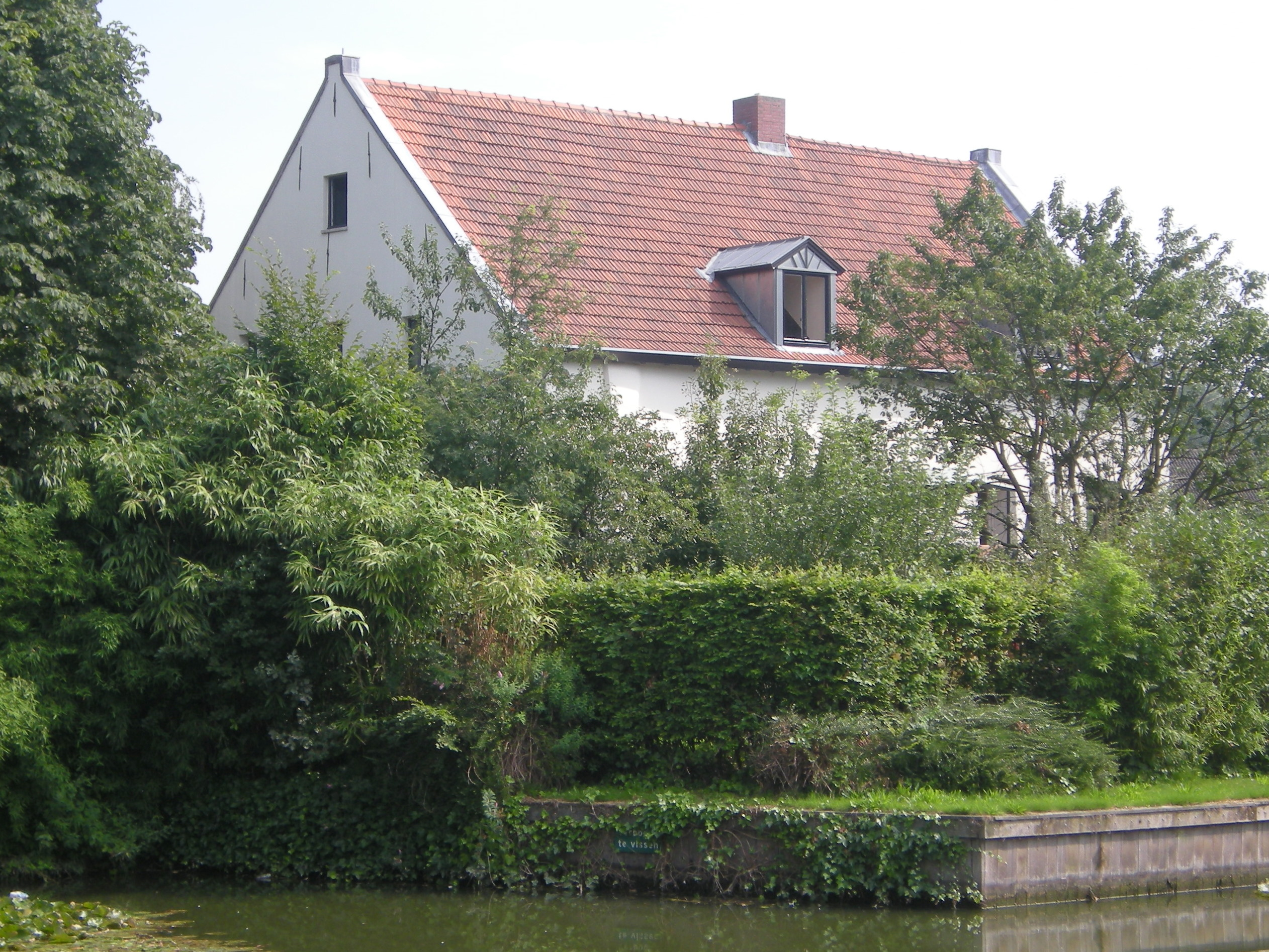 Stalberg house Venlo 2